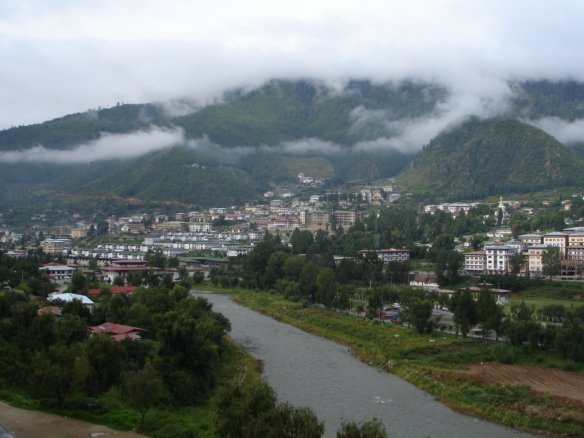 View of Thimphu, Capital of Bhutan.